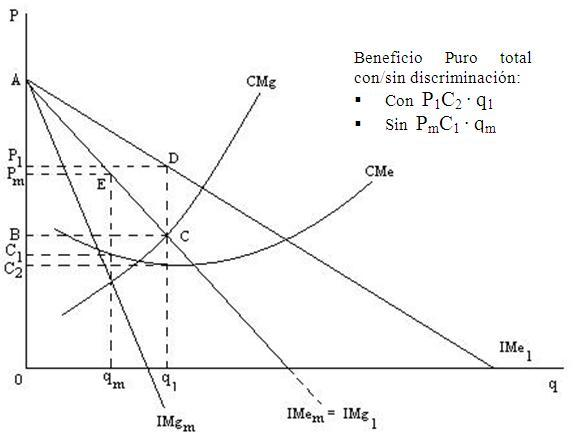 first-degree price discrimination